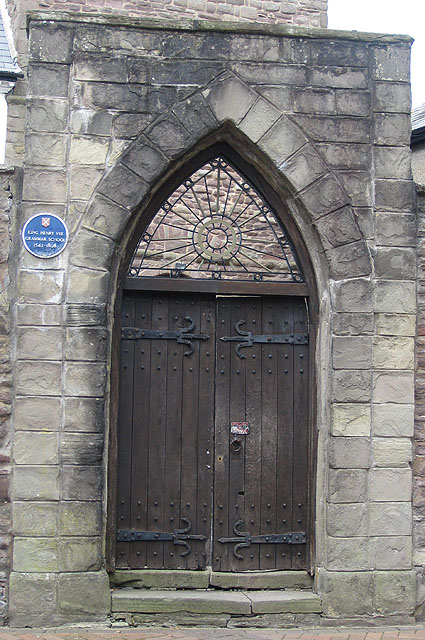 Entrance to former church and grammar school St. John's Church is thought to date from the early 1300s but once St. Mary’s Priory was given to the people for use as their parish church following the dissolution of the monasteries, St. John’s became disused and in 1542 it became the town’s grammar school. Henry VIII gave tithes, once used to support the priory, to the school. In 1898 a new school was built away from the town centre and named King Henry VIII Grammar School. St.John’s was then purchased by the Freemasons and used as their lodge.